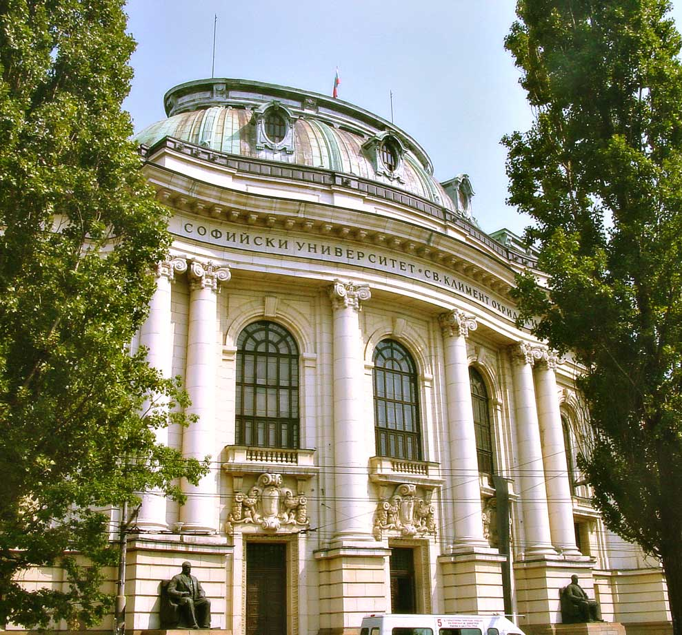 Photography & Art: Kosi Gramatikoff User:Kosigrim; Location: Rectorat, Sofia University, Sofia, Bulgaria